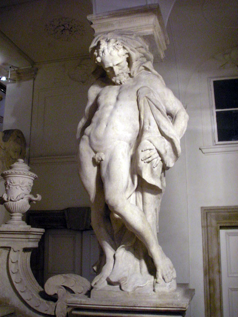 Interior view of the Winterpalais Prinz Eugen in Vienna's first district .